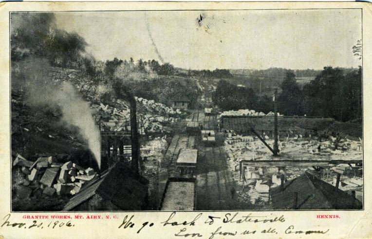 North Carolina Granite Corporation Quarry Complex, East of Mount Airy on NC 103 Mount Airy. Image courtesy of the North Carolina Collection, University of North Carolina at Chapel Hill.